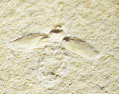 fossil of Lithoblatta lithophila from the Jurassic of Germany